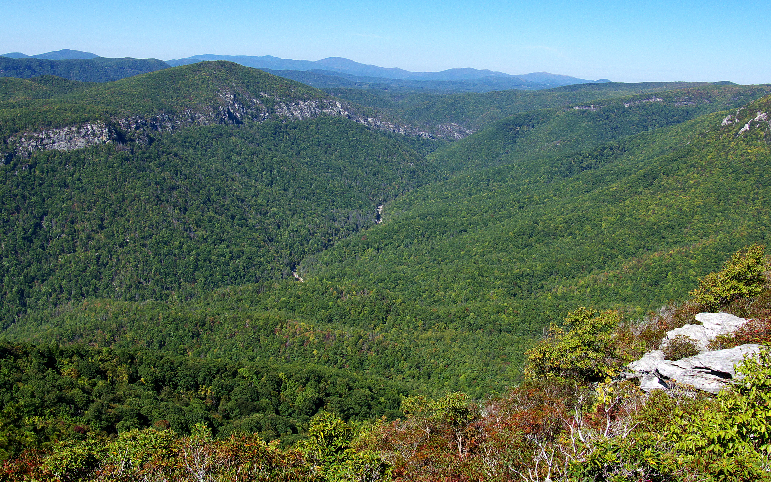 Looking north up the Linville Gorge from a point on the eastern (Jonas) ridge, near the summit of Table Rock. Photo taken with a Panasonic Lumix DMC-FZ50 in Burke County, NC, USA.